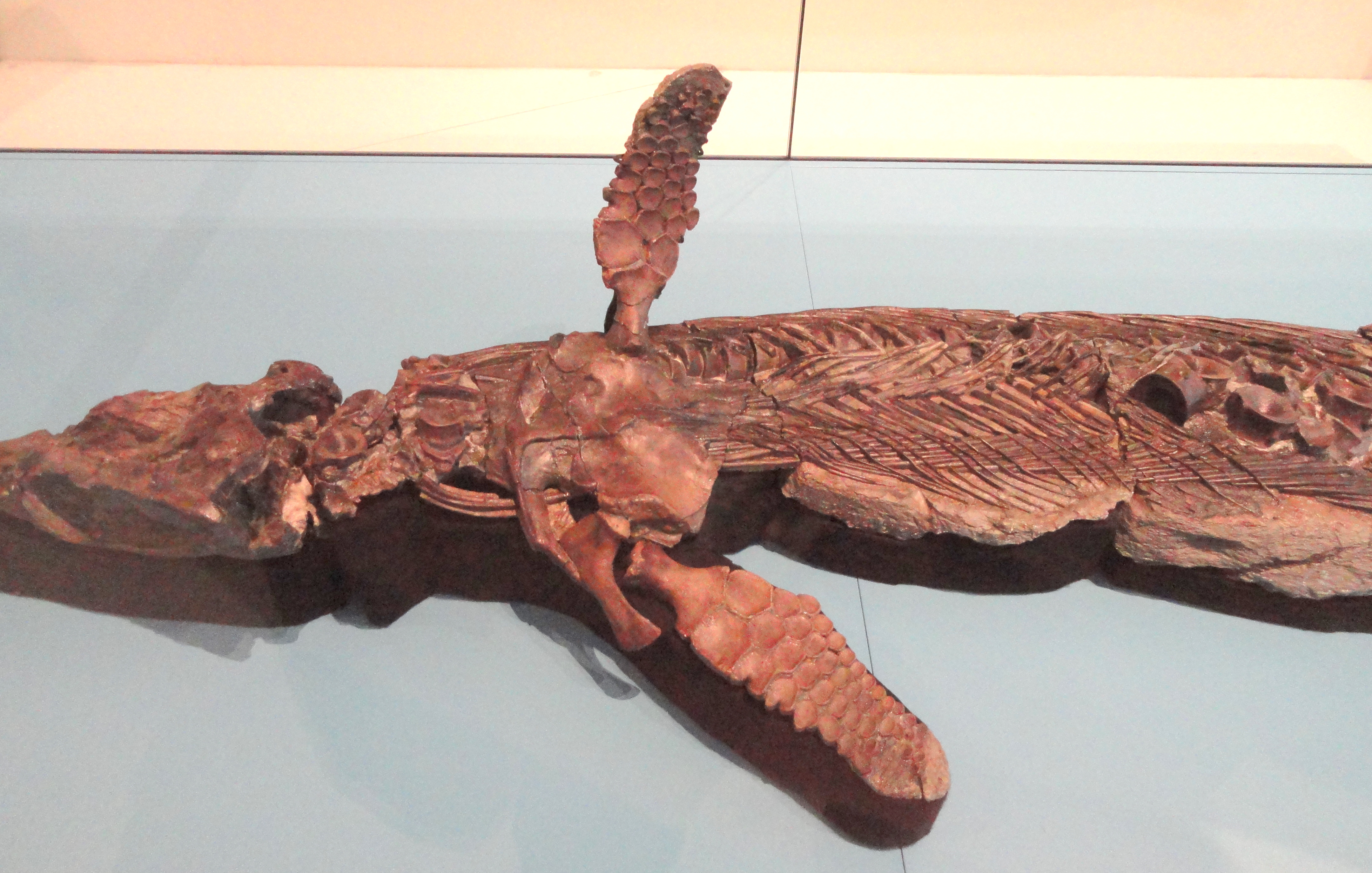 Exhibit in the Royal Ontario Museum, Toronto, Ontario, Canada. This exhibit is old enough so that it is in the public domain, and photography was permitted in the museum. I took this photograph and release it into the public domain.